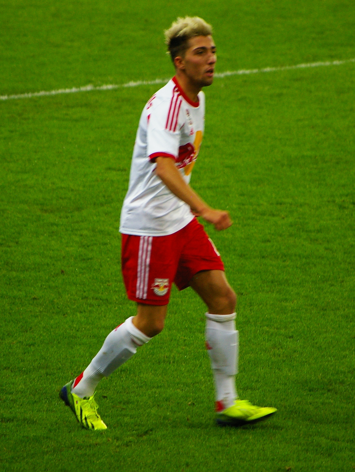 league match Austrian Bundesliga